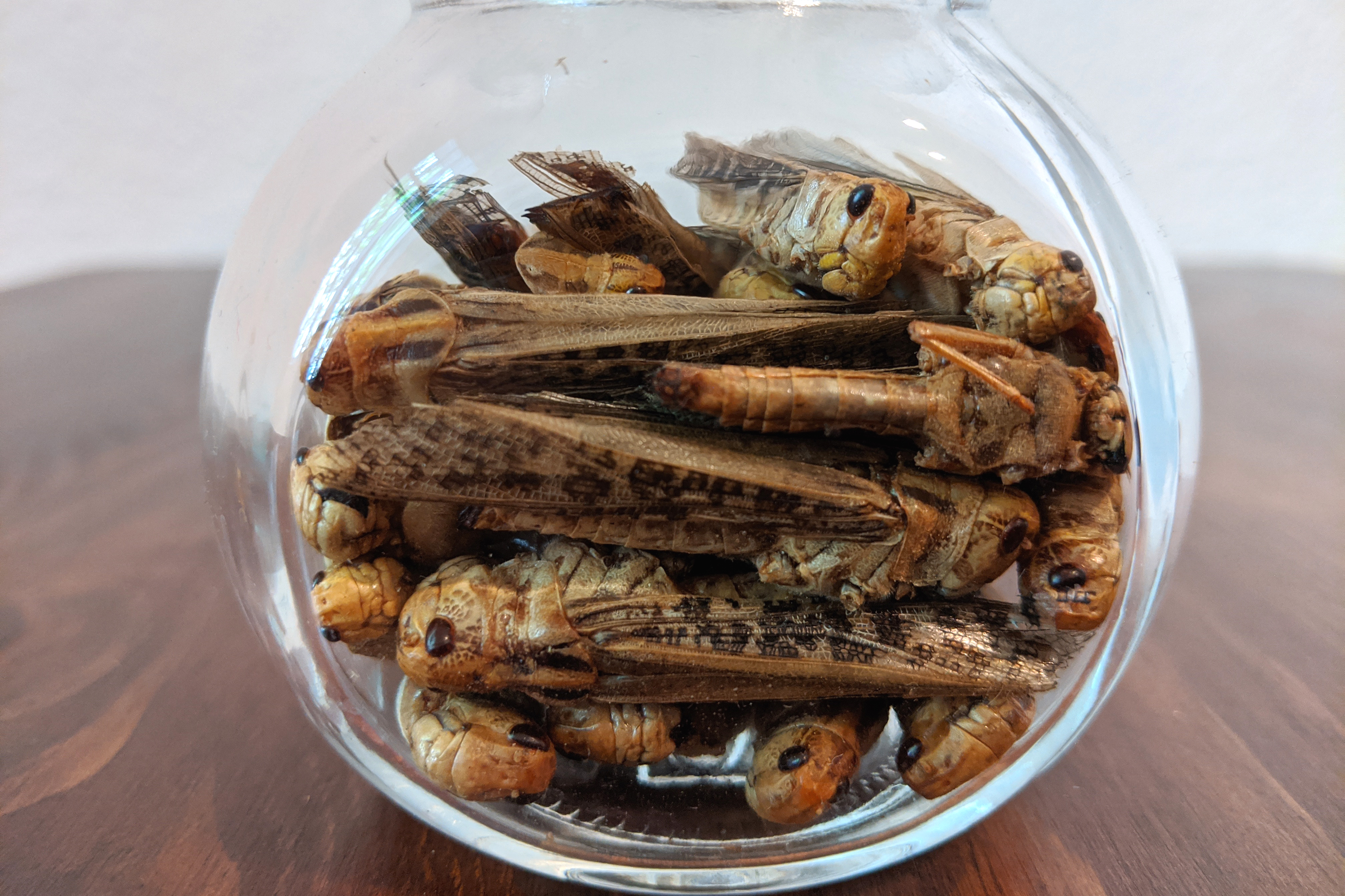 Dried migratory locusts as food or food ingredient, farmed in Germany. The migratory locust (Locusta migratoria) is an edible insect that is farmed for human consumption.